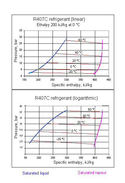 Pressure-enthaply diagram of R407C refrigerant, with isotherms